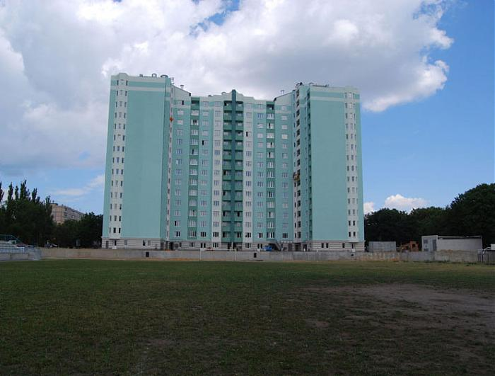 KVPUBD Stadium in Kyiv, Ukraine